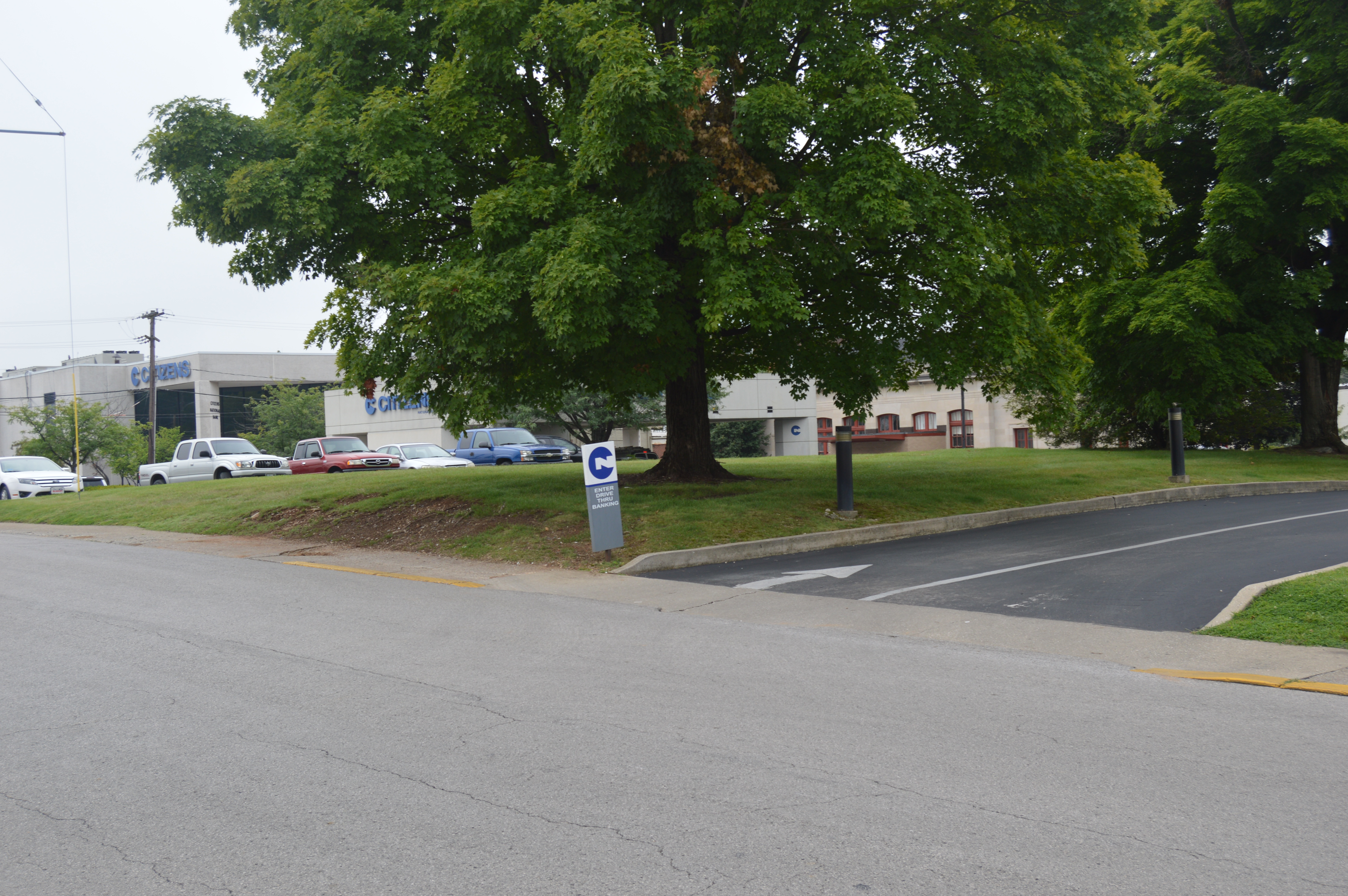 An empty lot on the western side of Maple Street north of the Columbia Street intersection in Somerset, Kentucky, United States. This was formerly the site of the Withers House, which has been listed on the National Register of Historic Places; although it was destroyed after designation, it has not yet been removed from the Register.